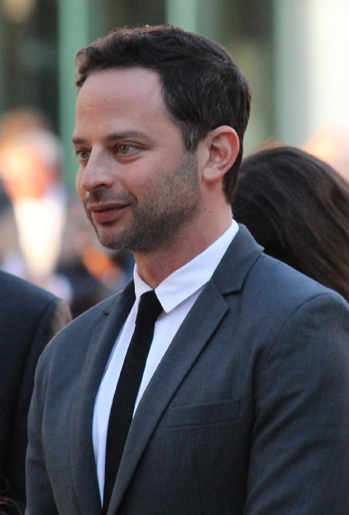 Close-up of Nick Kroll at 2016 Toronto International Film Festival for the film Loving - #TIFF16.